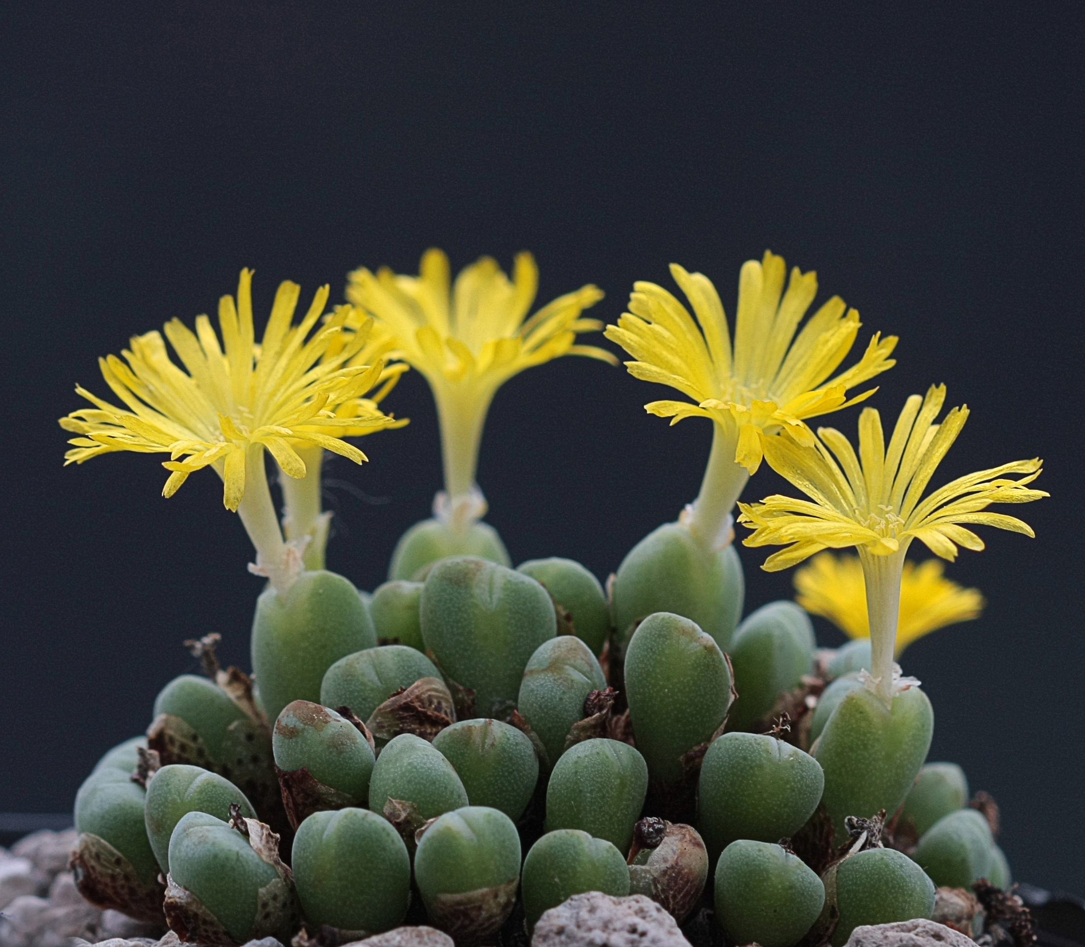 Conophytum meyeri